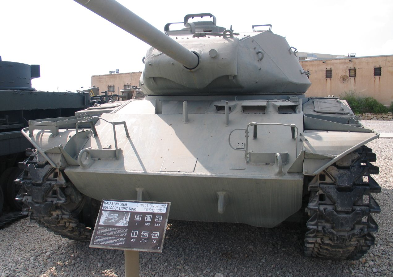 Description: M41A3 Walker Bulldog light tank in Yad la-Shiryon Museum, Israel. 2005. Source: Photo by me, User:Bukvoed.